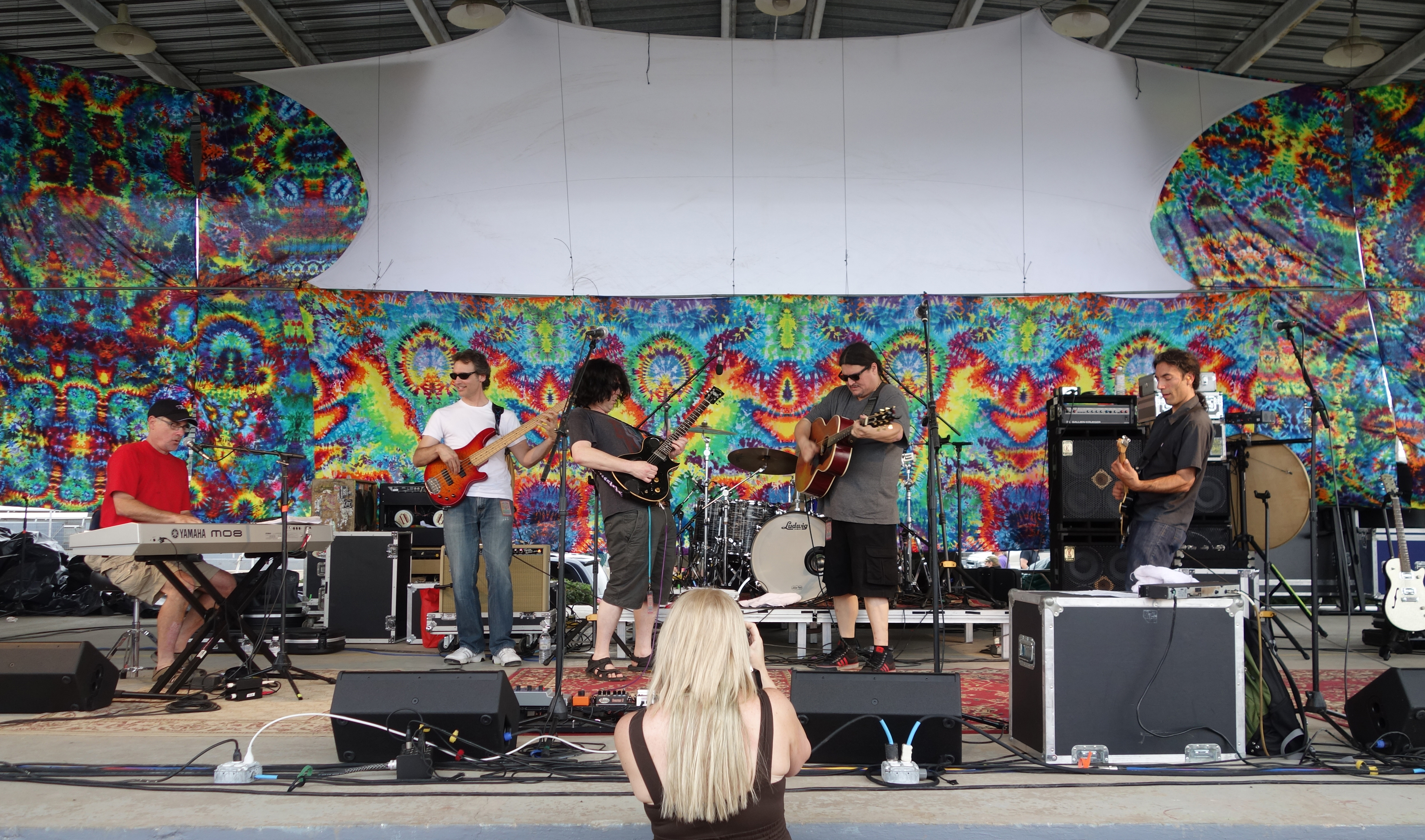 The Fall Risk performing at A Bear's Picnic in Hughesville, PA on August 2, 2013, with photographer Suzy Perler in the foreground simultaneously shooting a band photo.